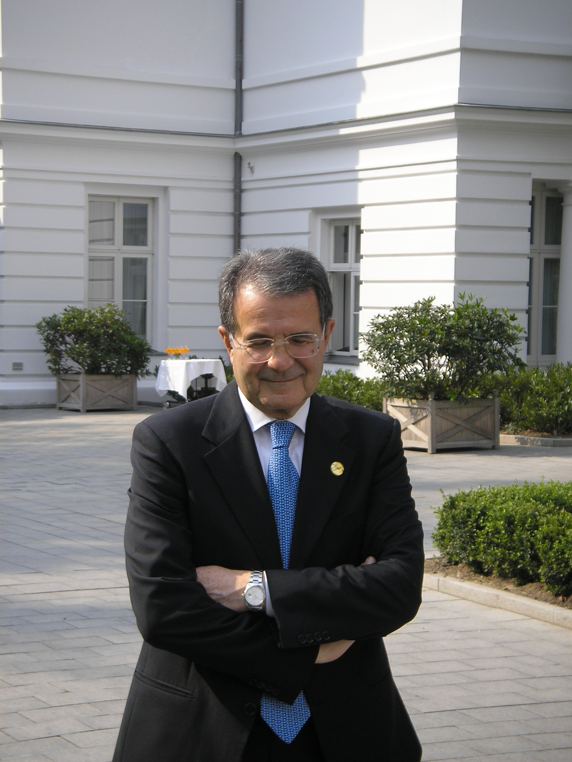 Italian Prime Minister Romano Prodi at the G8 summit in Heiligendamm.